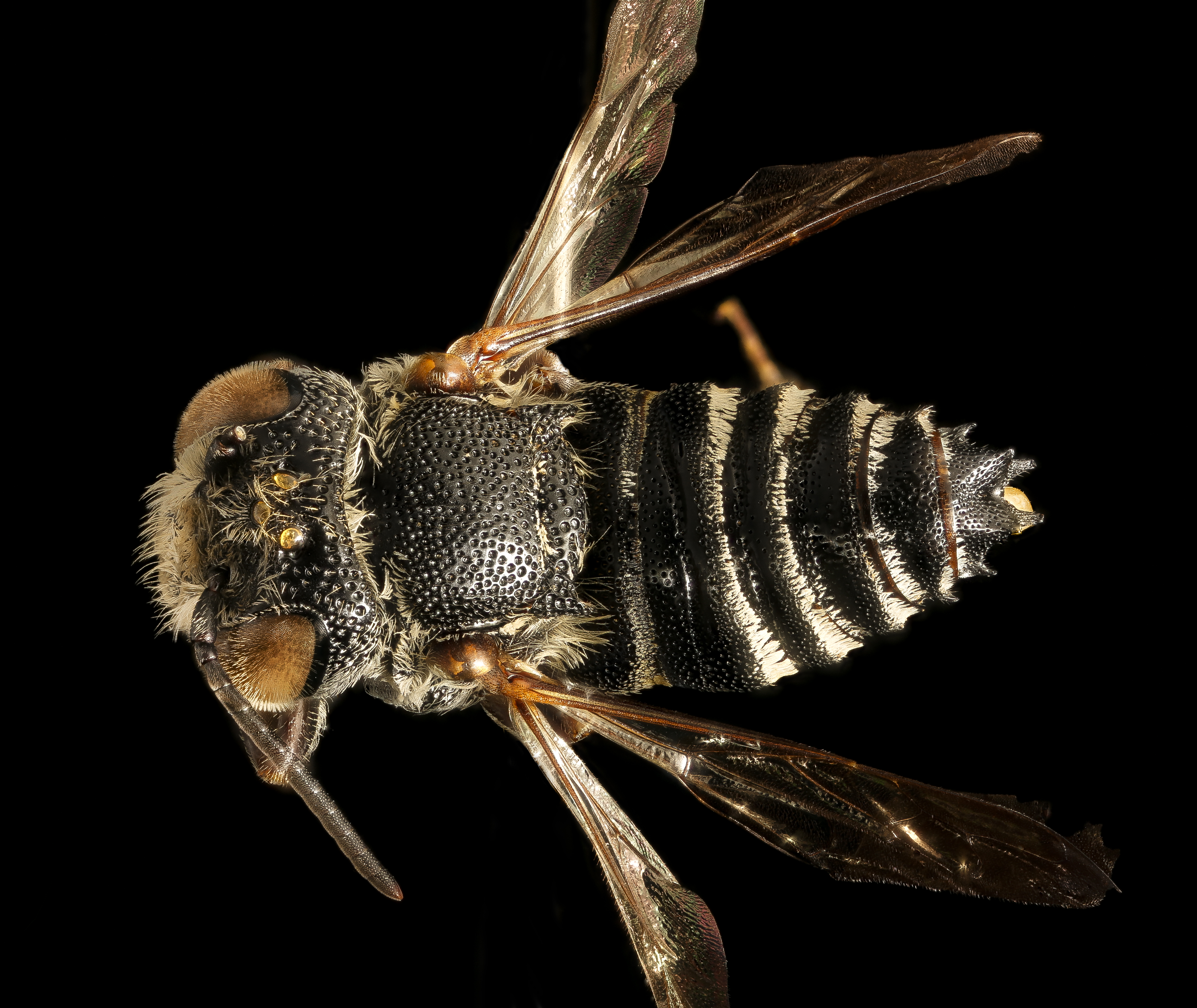 A nest parasite, this time a male. Coelioxys octodentata is a counterpart to the more commonly found C. sayi. I associate this species with drier and perhaps sandier locations, perhaps as the nest parasite of things like Megachile brevis. Note the characteristic teeth sticking out of the rear of this bee. I am not sure what the purpose is, but essentially all the males has some variation of these teeth. Photography by Amanda Robinson. 00:23, 3 May 2016 (UTC)00:23, 3 May 2016 (UTC) 0 00:23, 3 May 2016 (UTC)00:23, 3 May 2016 (UTC) All photographs are public domain, feel free to download and use as you wish. Photography Information: Canon Mark II 5D, Zerene Stacker, Stackshot Sled, 65mm Canon MP-E 1-5X macro lens, Twin Macro Flash in Styrofoam Cooler, F5.0, ISO 100, Shutter Speed 200 Beauty is truth, truth beauty - that is all Ye know on earth and all ye need to know " Ode on a Grecian Urn" John Keats You can also follow us on Instagram - account = USGSBIML Want some Useful Links to the Techniques We Use? Well now here you go Citizen: Art Photo Book: Bees: An Up-Close Look at Pollinators Around the World Basic USGSBIML set up: USGSBIML Photoshopping Technique: Note that we now have added using the burn tool at 50% opacity set to shadows to clean up the halos that bleed into the black background from "hot" color sections of the picture. PDF of Basic USGSBIML Photography Set Up: ftp://ftpext.usgs.gov/pub/er/md/laurel/Droege/How%20to%20Take%20MacroPhotographs%20of%20Insects%20BIML%20Lab2.pdf Google Hangout Demonstration of Techniques: or Excellent Technical Form on Stacking: Contact information: Sam Droege 301 497 5840